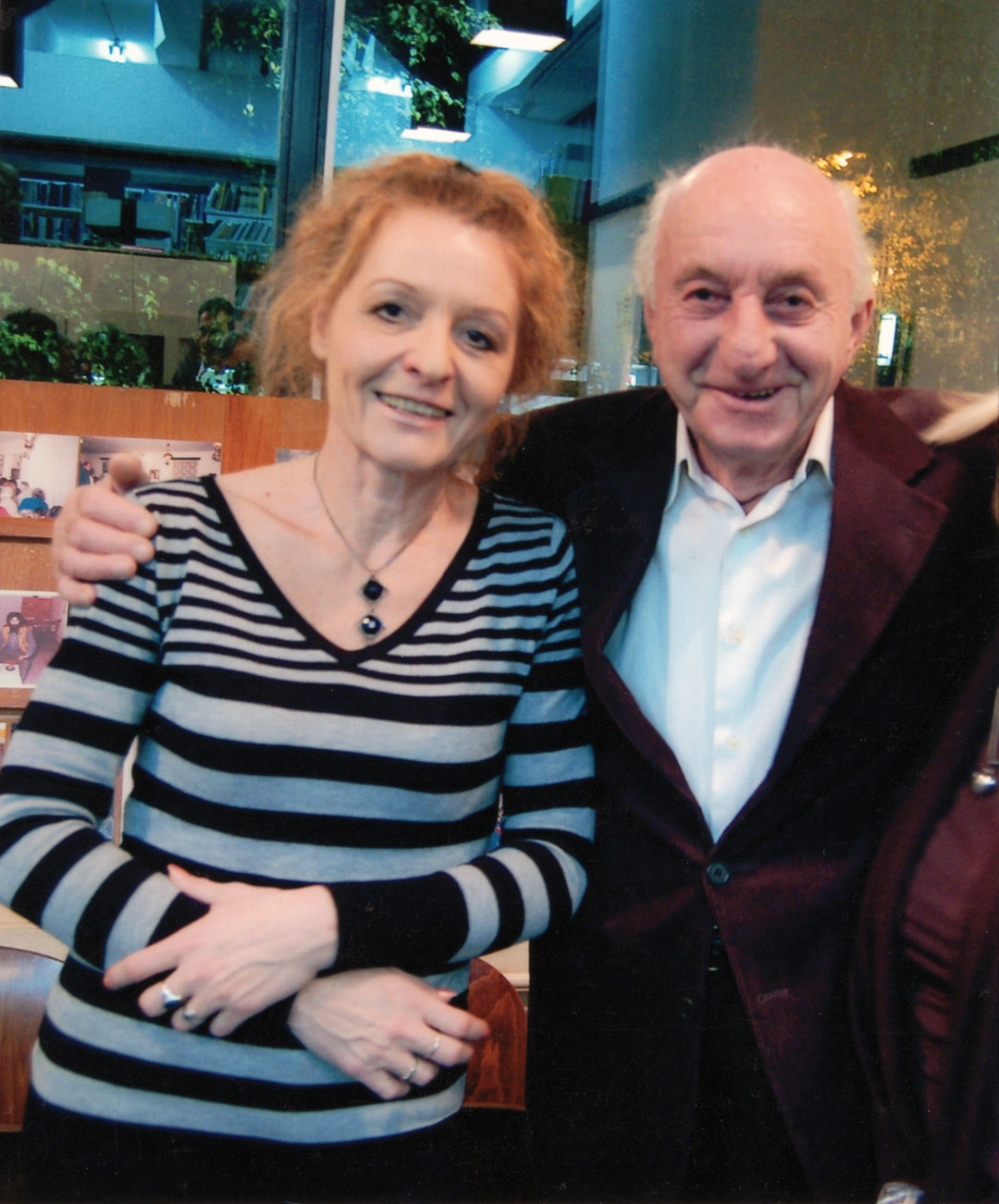 Danilo Nikolić and his daughter Lidija Nikolić in 2009 Српски (ћирилица): Данило са ћерком Лидијом 4.11.2009. у Библиотеци Бранко Миљковић.